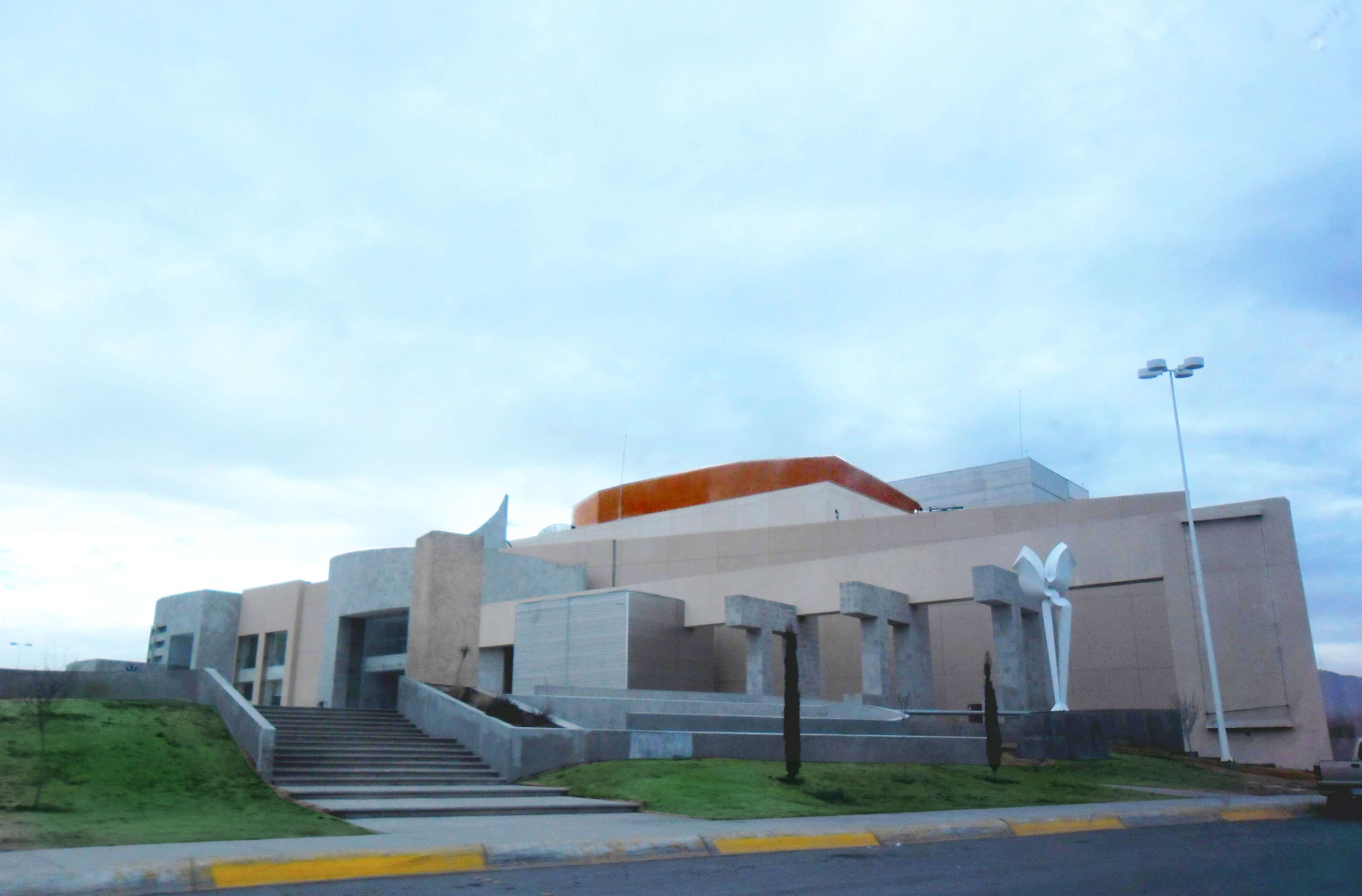 Juarez